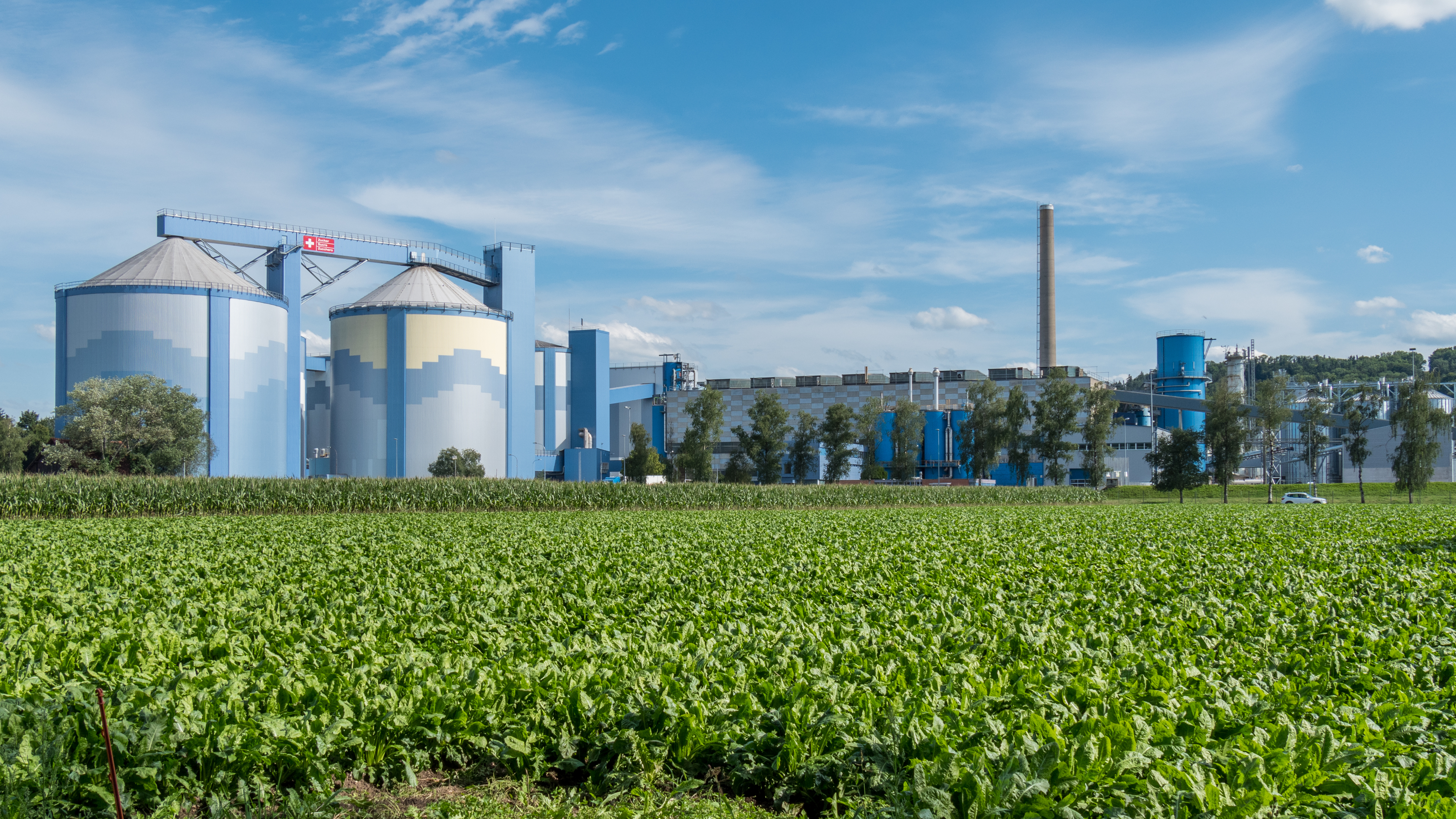 Frauenfeld factory of Swiss Sugar Corp.